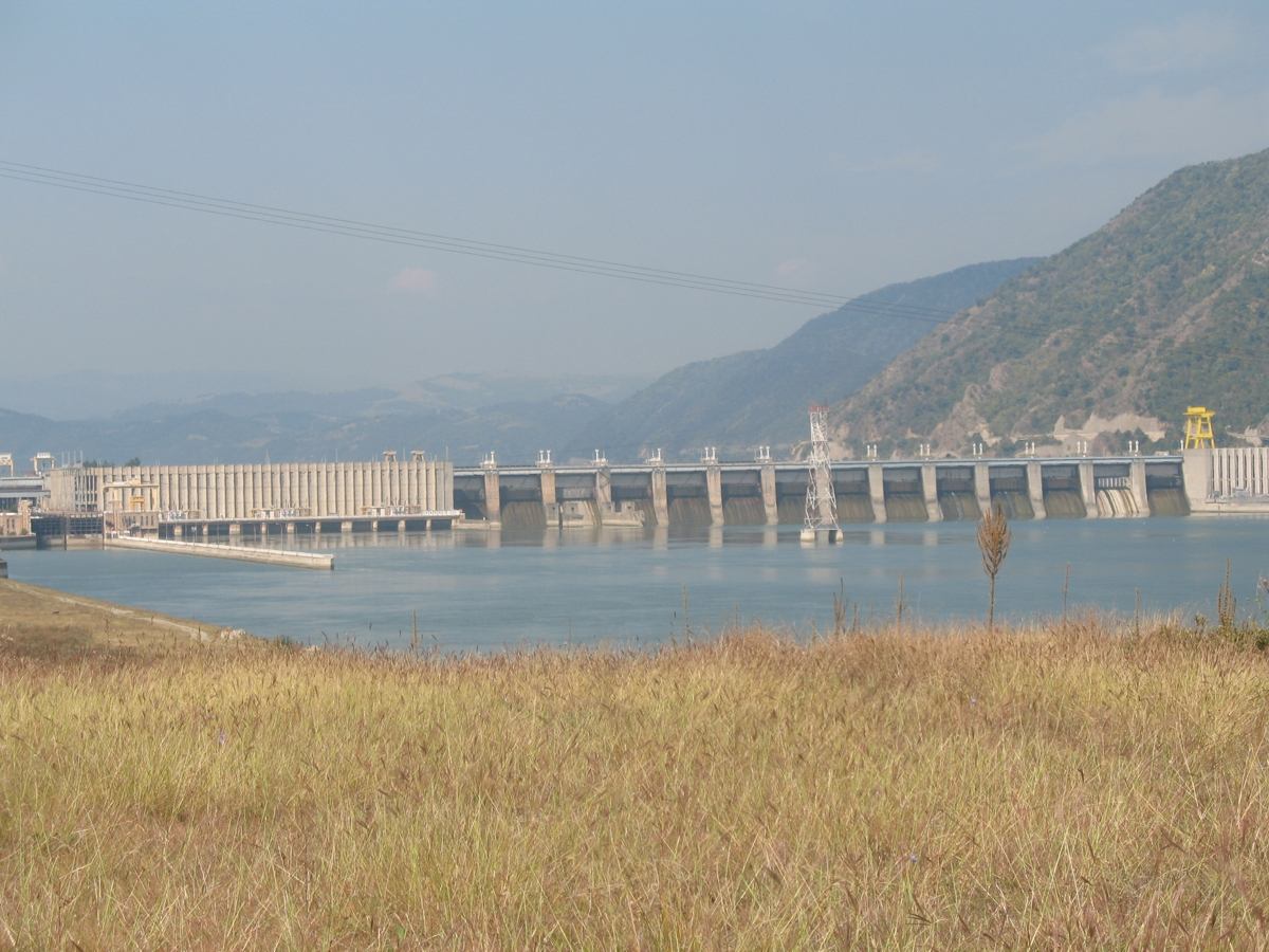 Downstream side of the Đerdap I (Iron Gate I) hydroelectric power plant on Danube, seen from Serbian coast; in the middle a pylon of the 400 kV overhead power line crossing (connecting Romanian and Serbian substations).